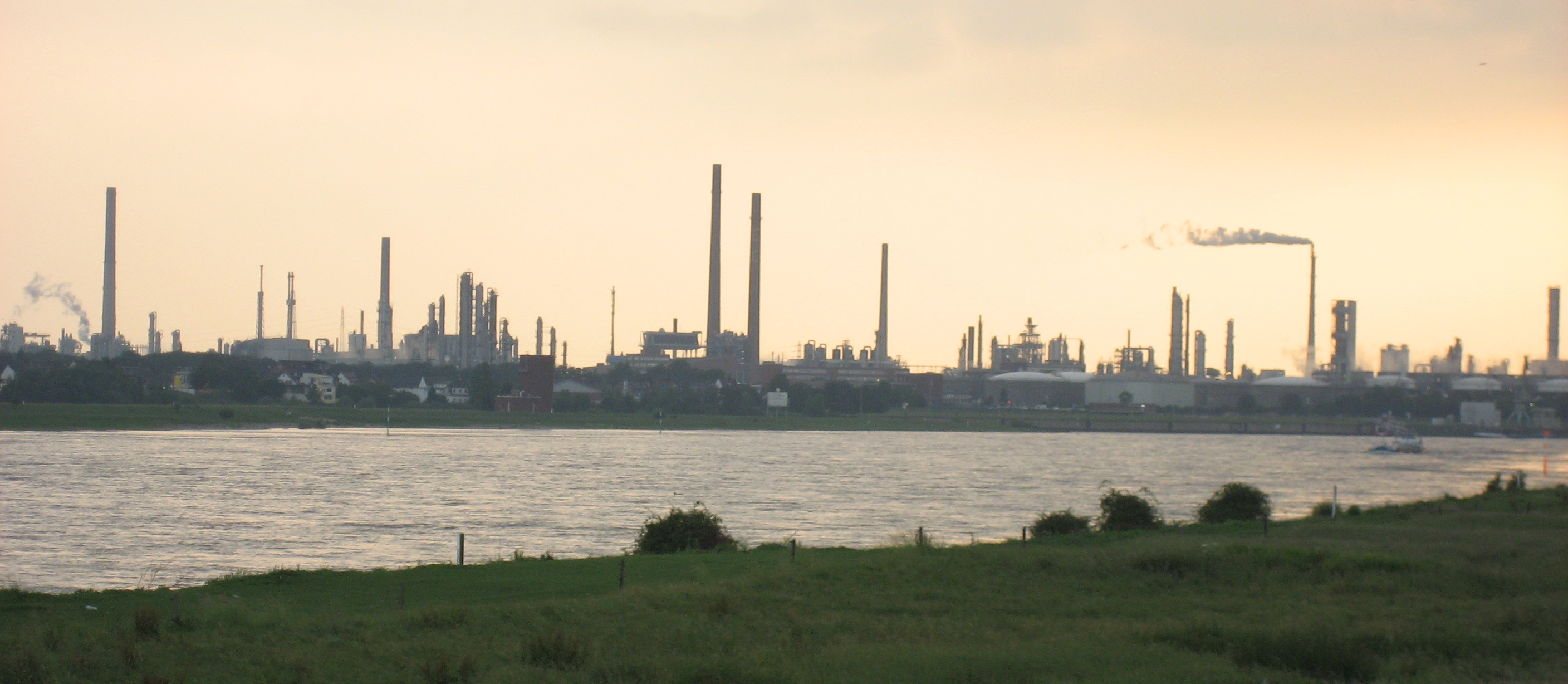 The Skyline of an industrial site in Dormagen, Germany.